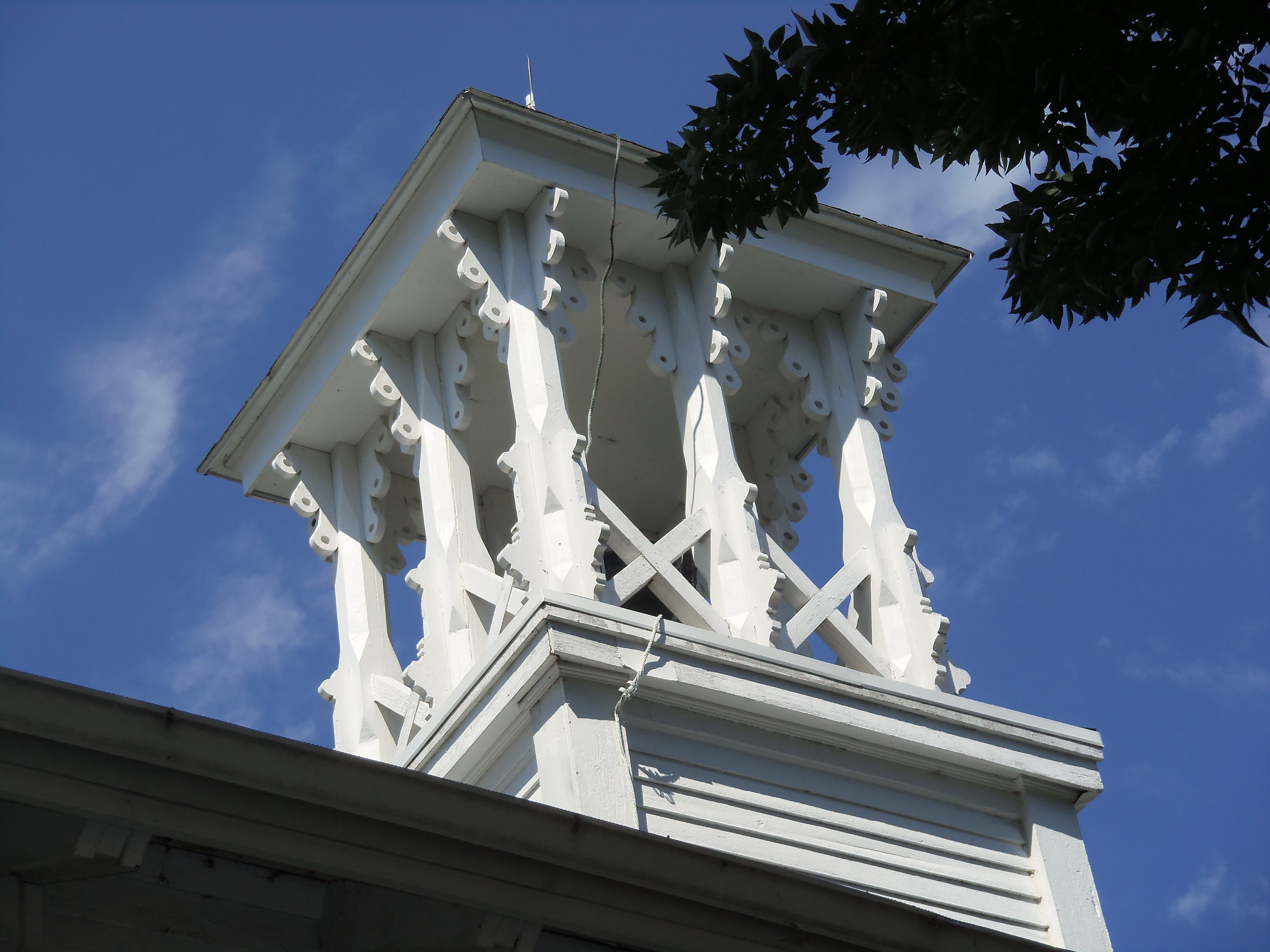 St. Paul's Episcopal Church in Durant, Iowa is listed on the National Register Places.